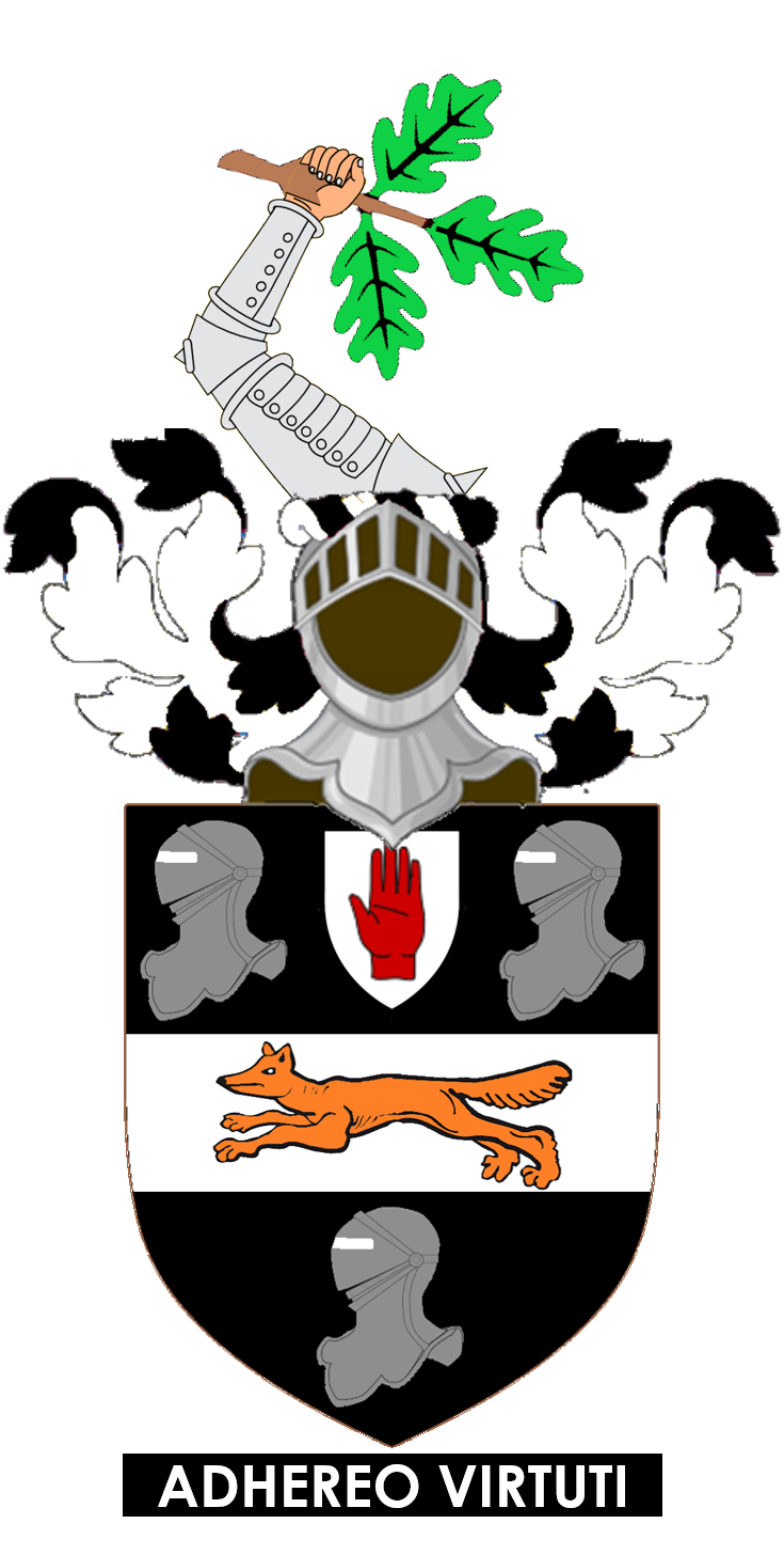 The armorial achievement of the Kennedy baronets of Johnstown Kennedy